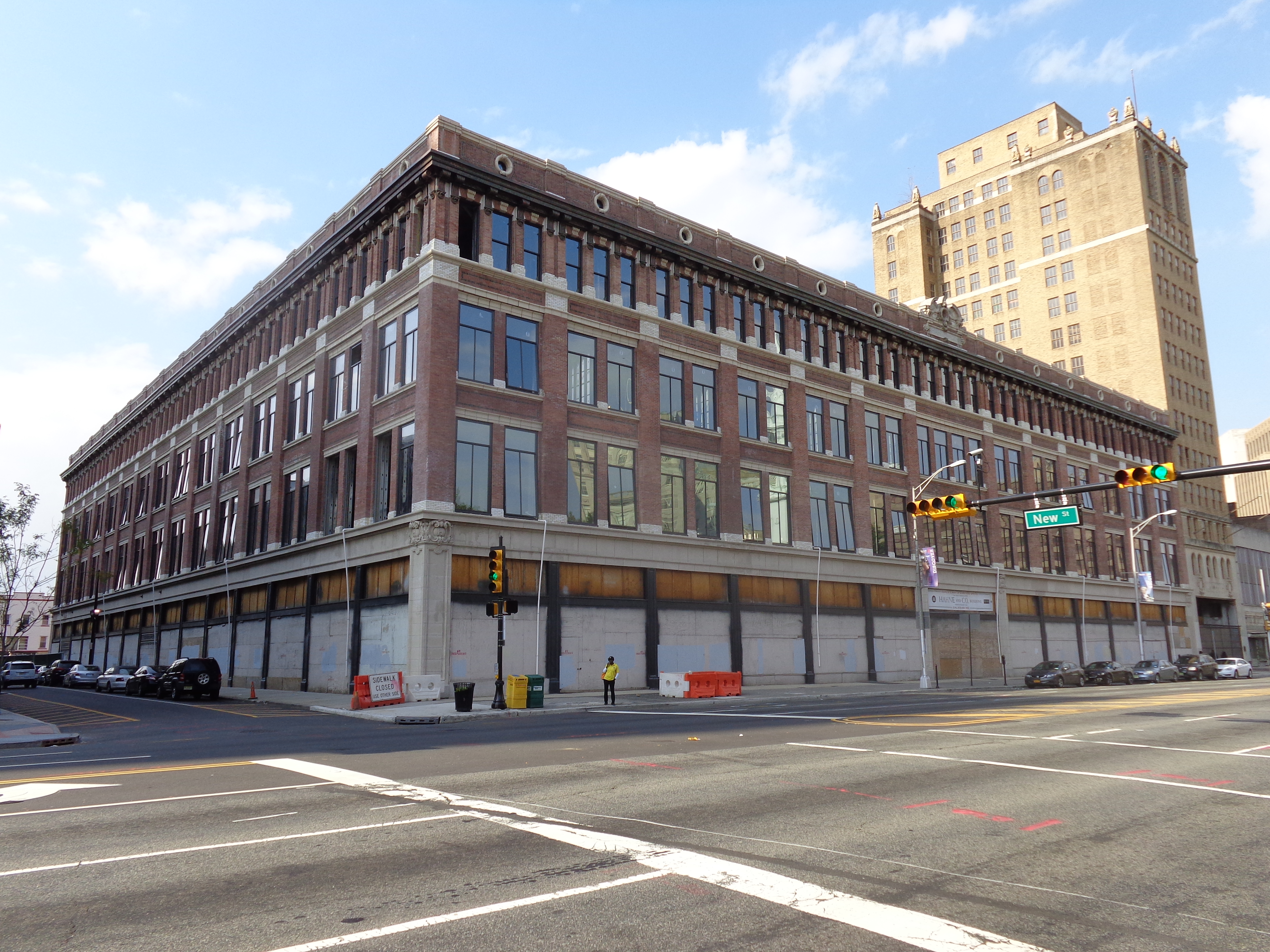 Hahne & Company Department Store and Griffith Building Broad Street Newark